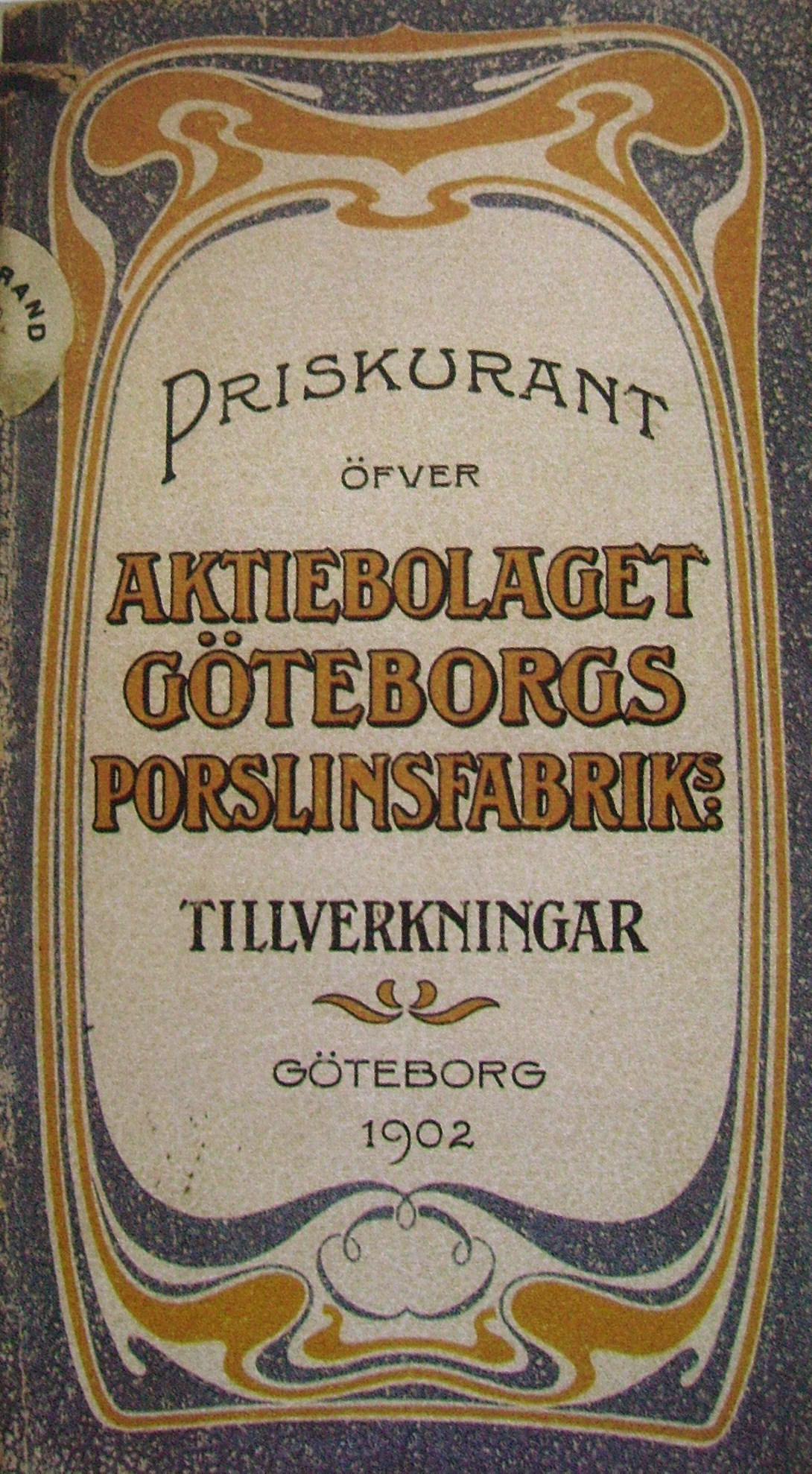 Picture of price list from Göteborgs Porslinsfabrik